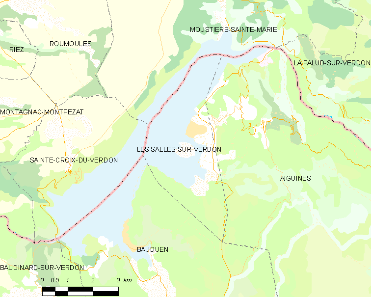 Map of French municipality Les Salles-sur-Verdon